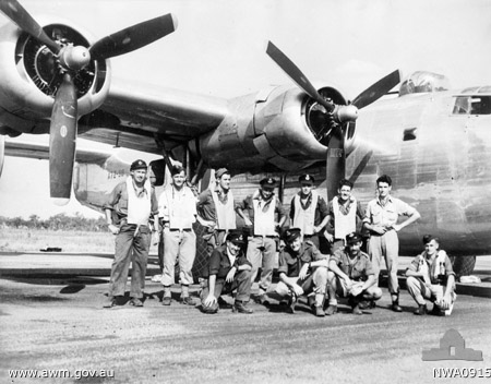 AWM Caption: Darwin, NT. 1945-06. An informal group portrait of the crew of a RAAF Liberator aircraft of No. 23 (City of Brisbane) Squadron RAAF prior to departure on a mission on the Japanese airfields in the Celebes, Netherlands East Indies. Left to right: 401420 Warrant Officer (WO) F. L. Cornell of Box Hill, Vic 27755 Sergeant (Sgt) J. McBain of SA 437841 Flight Sergeant J. D. Campbell of Hughesdale, Vic 418462 Flying Officer (FO) P. Moore of Hughesdale, Vic 411621 FO K. A. Vivian of Mona Vale, NSW 439500 Sgt R. S. Squires of Ashfield, NSW 431116 Flight Sergeant R. J. Sullivan of Moonee Ponds, Vic Kneeling: 408899 WO D. H. Whitelock of Brunswick, Vic 422395 Flight Lieutenant R. Bowman of Paddington, NSW 401299 FO A. E. Carter of Brighton, Vic 445239 Sgt R. J. Lovell of Liverpool, NSW